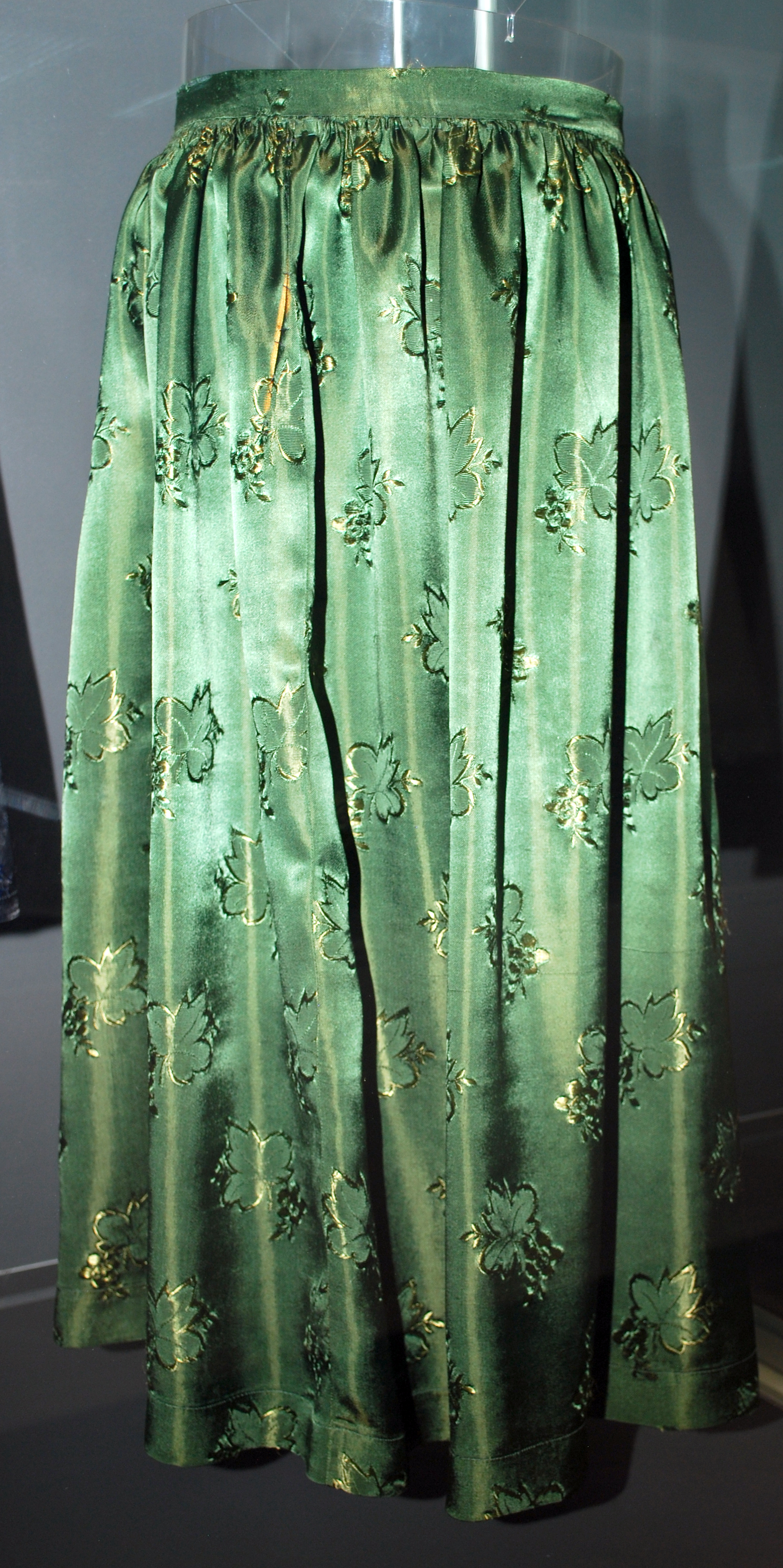 Skirt of silk brocade 2 half Nineteenth century